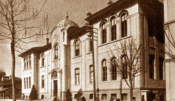 Old building of the Faculty of Philosophy in Skopje, destroyed in earthquake in 1963